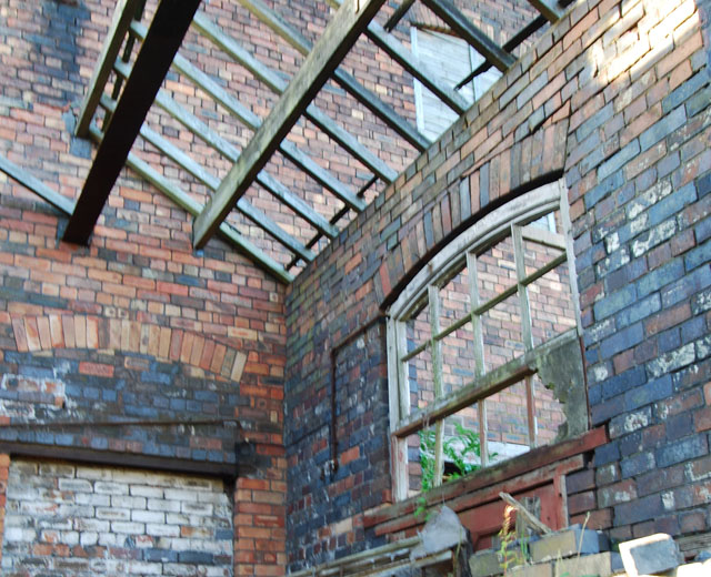 Bispham Hall Brick Works Inside one of the derelict buildings